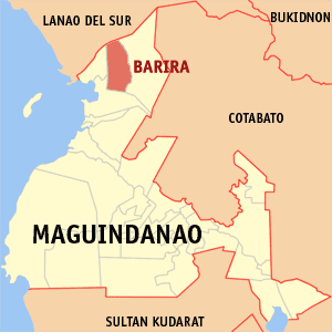 Map of the Maguindanao showing the location of Barira